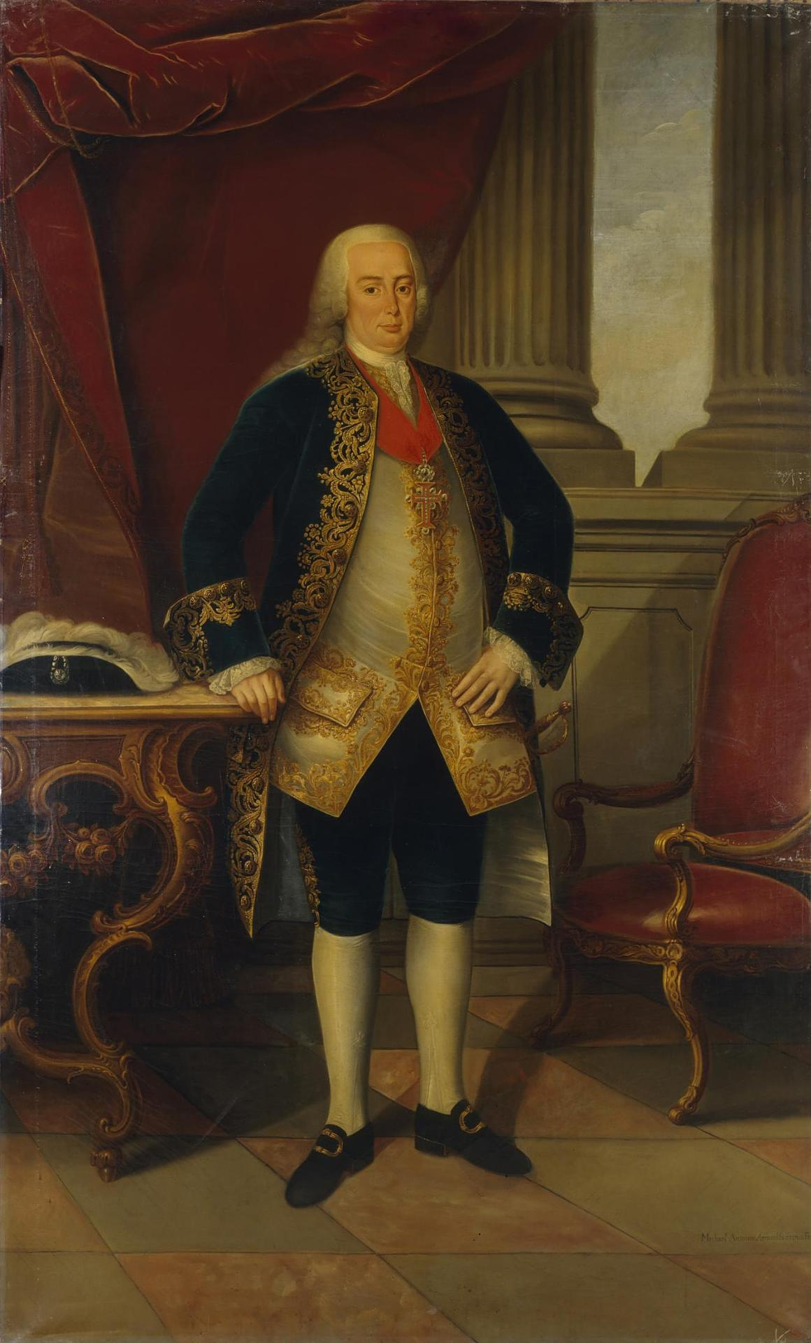 Peter III, King Consort of Portugal, while Prince of Brazil.